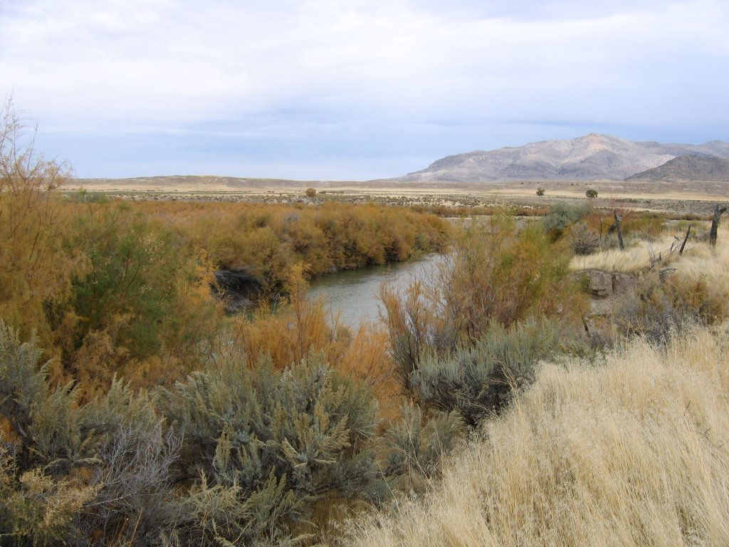 The Sevier River at Leamington, Utah. (view NE of the southwest of the Gilson Mountains)